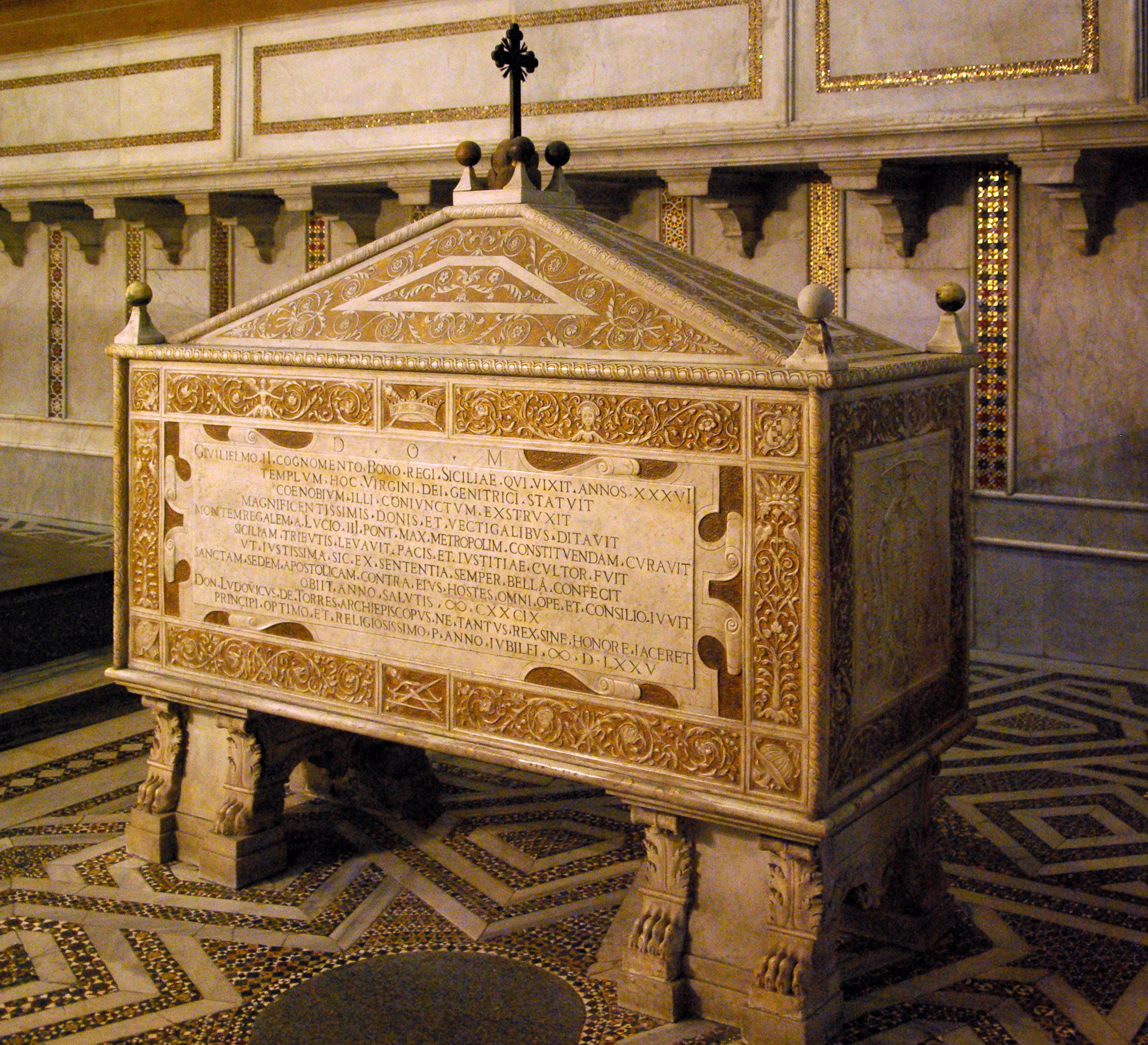 Italy, Sicily, Monreale, Cathedral, Tomb of William II of Sicily